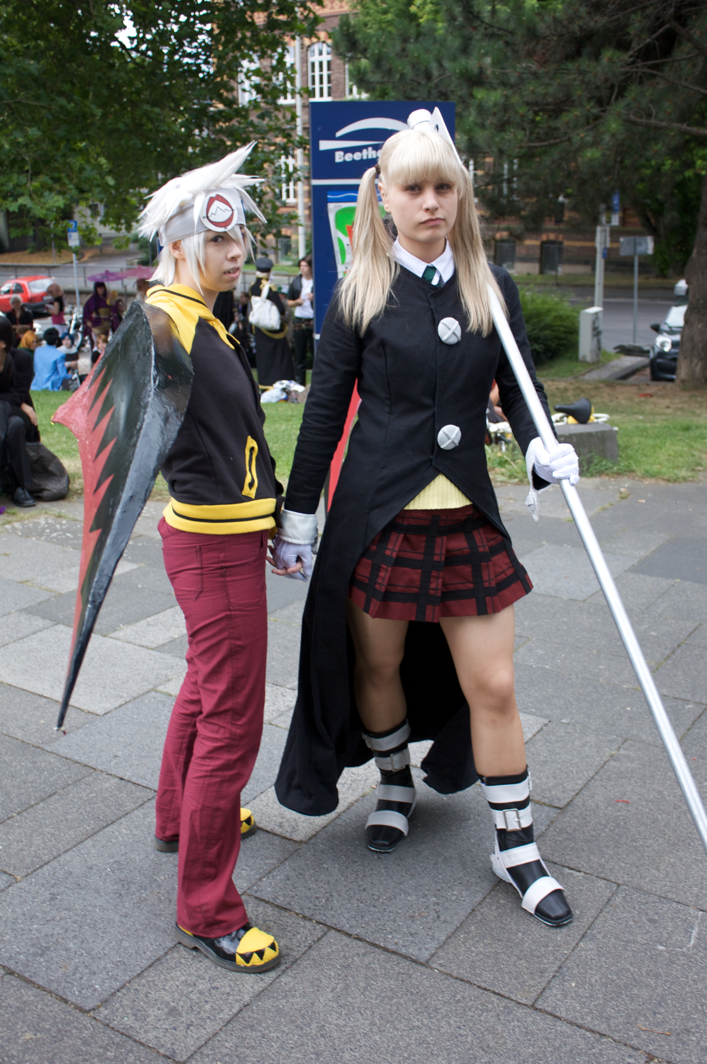 Soul Eater cosplay, Soul & Maka